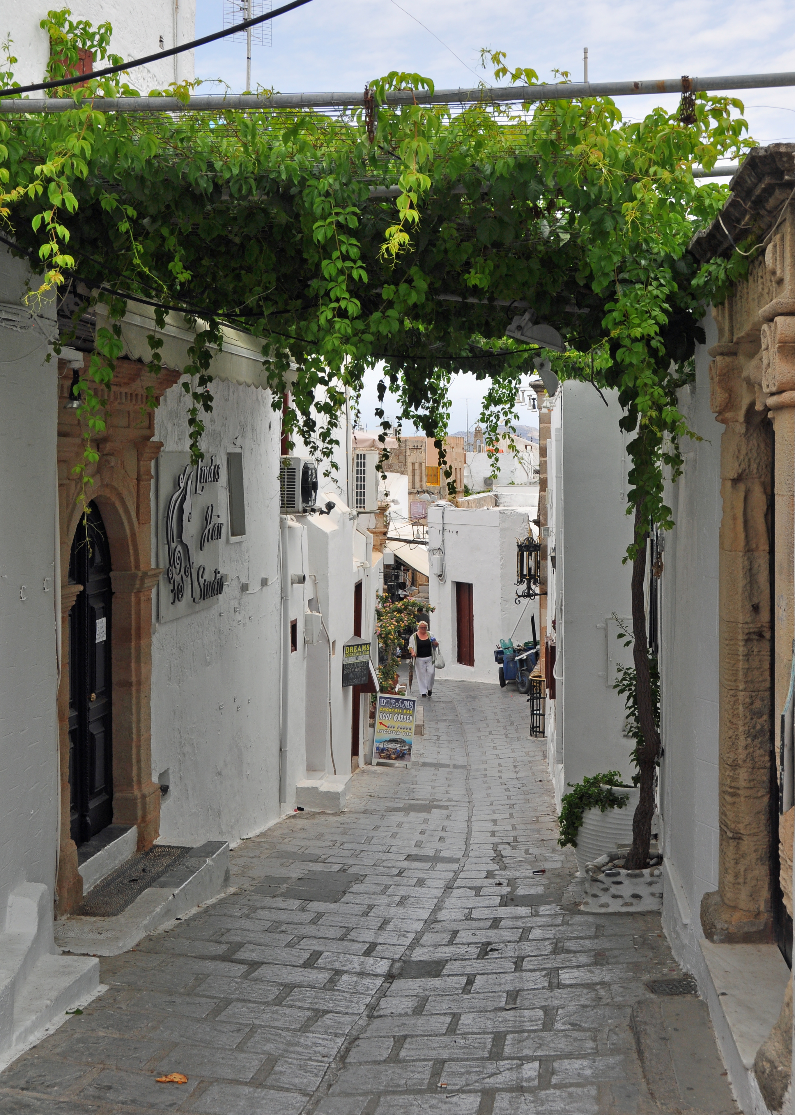 Street in Lindos (Rhodes, Greece)